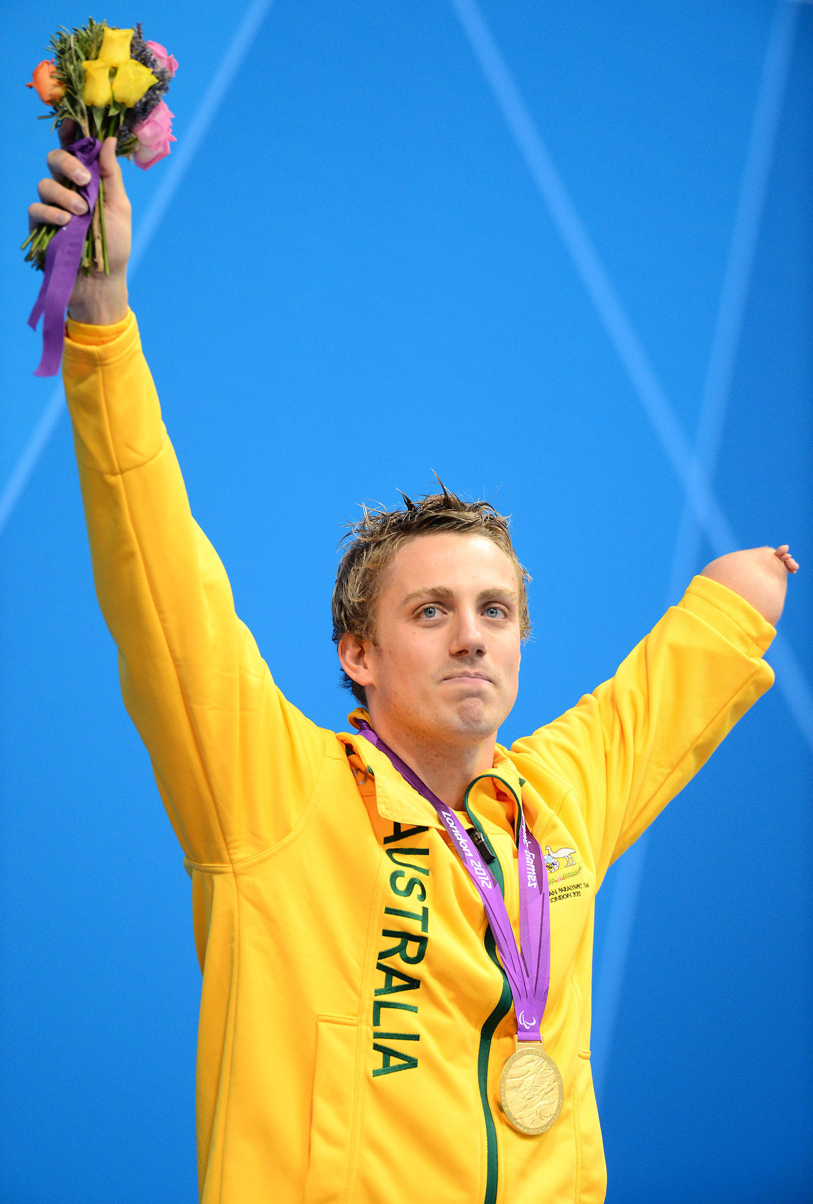 Photograph of Australian Paralympic team member Matthew Cowdrey at the 2012 Summer Paralympic Games in London